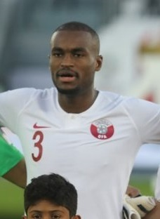 Abdelkarim Hassan